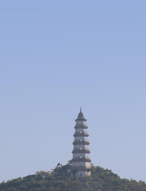 Wenming Pagoda, located in Gaoyao City, Guangdong Province, China